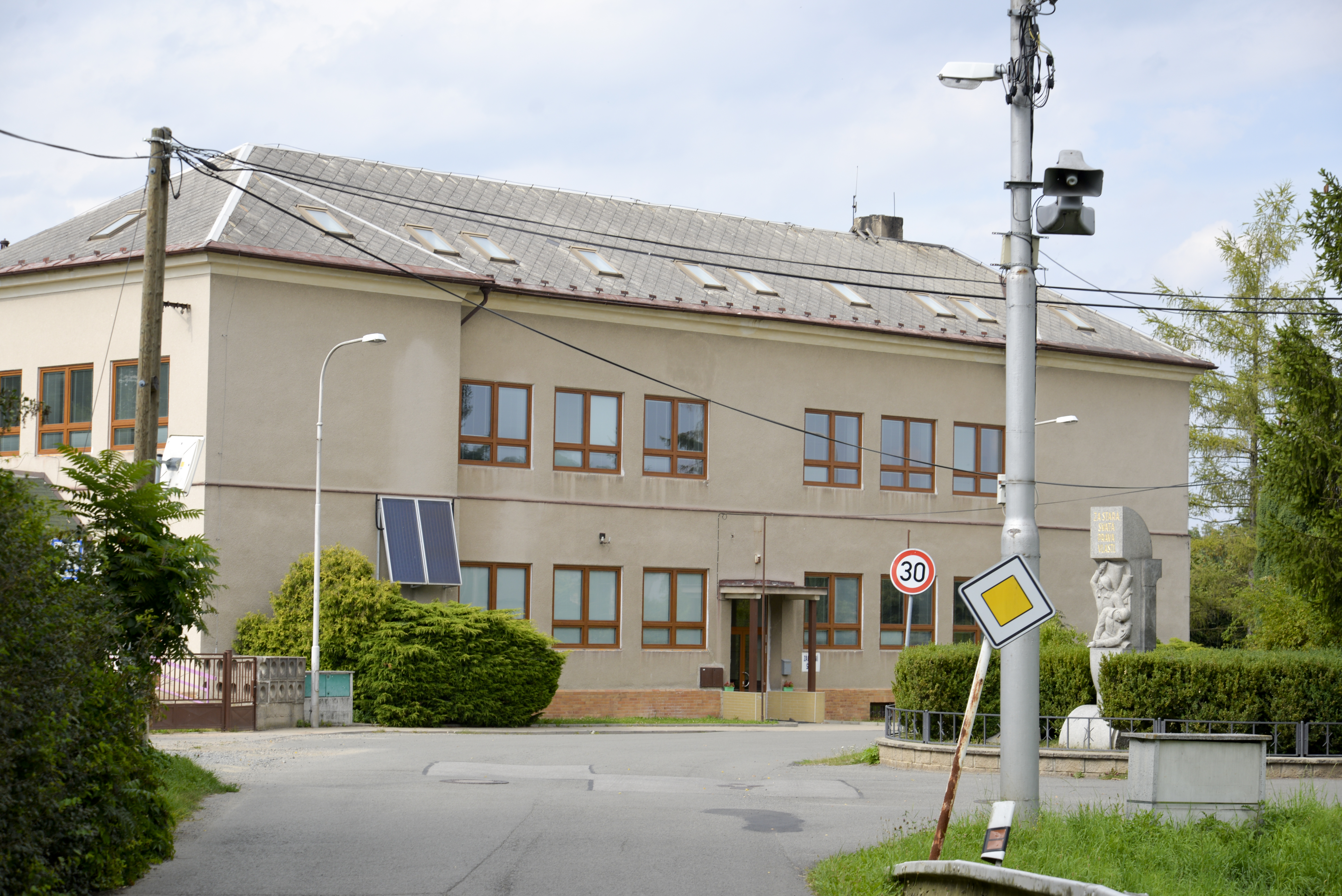 Dalovice, village in Mladá Boleslav District, school